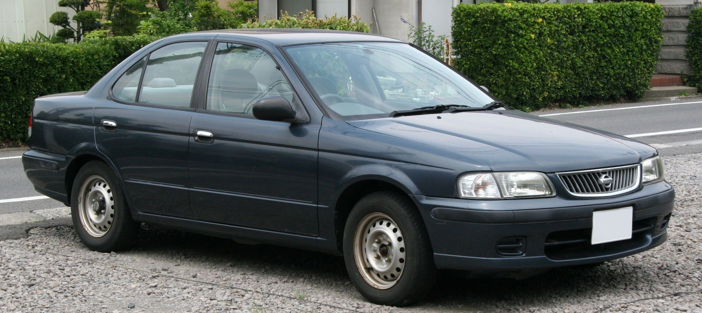 NISSAN Sunny